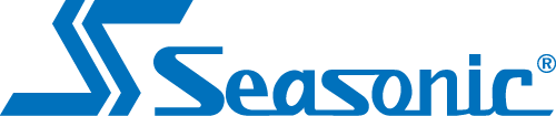 Logo of Sea Sonic Electronics.